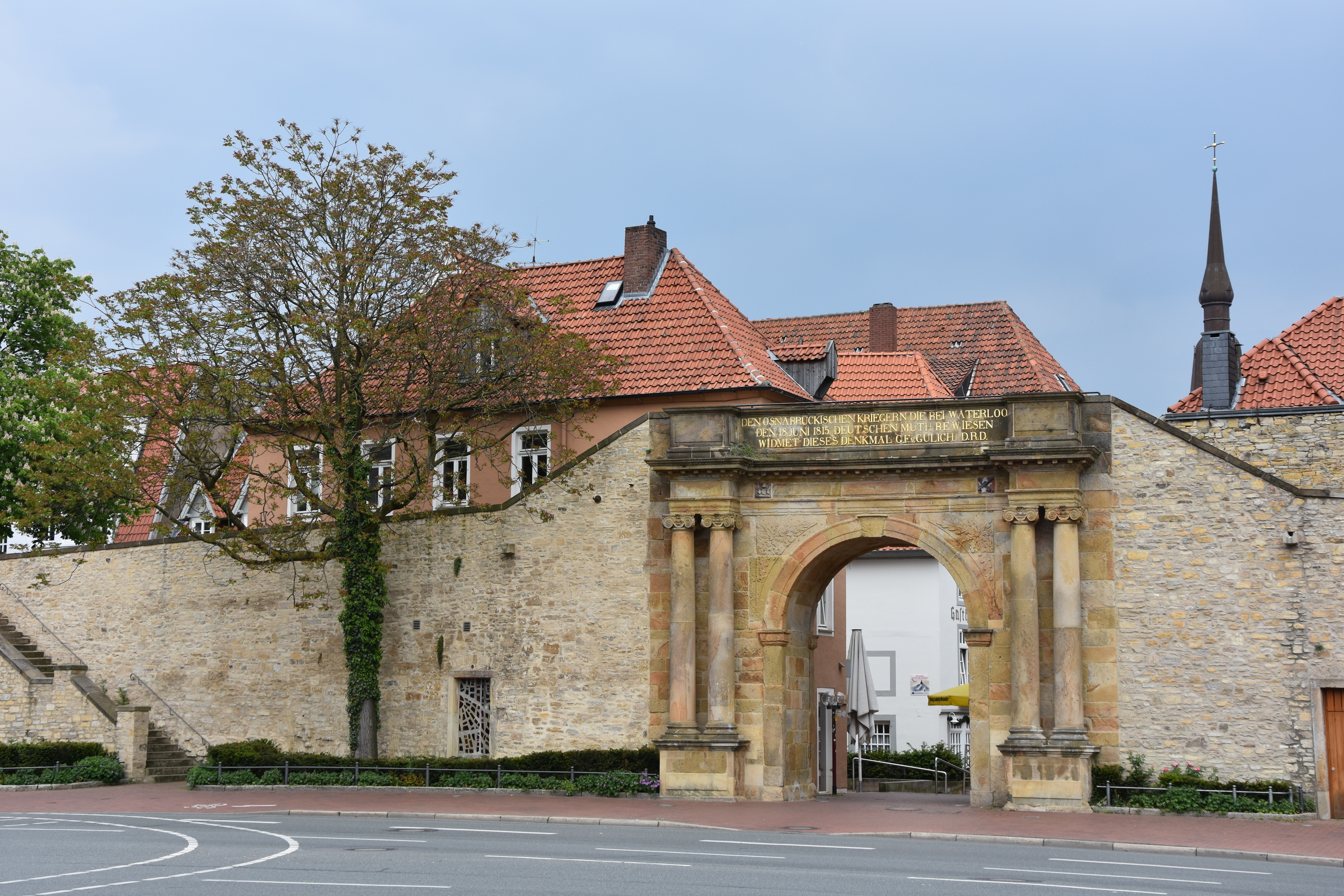 Heger Gate Osnabrück